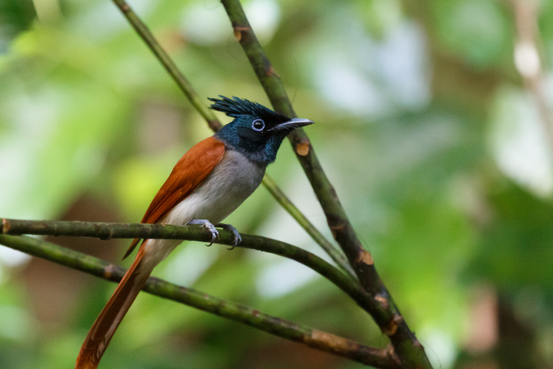 Female of Asian Paradise Flycatcher (Terpsiphone paradisi) at Sinharaja Forest Reserve, Sri Lanka